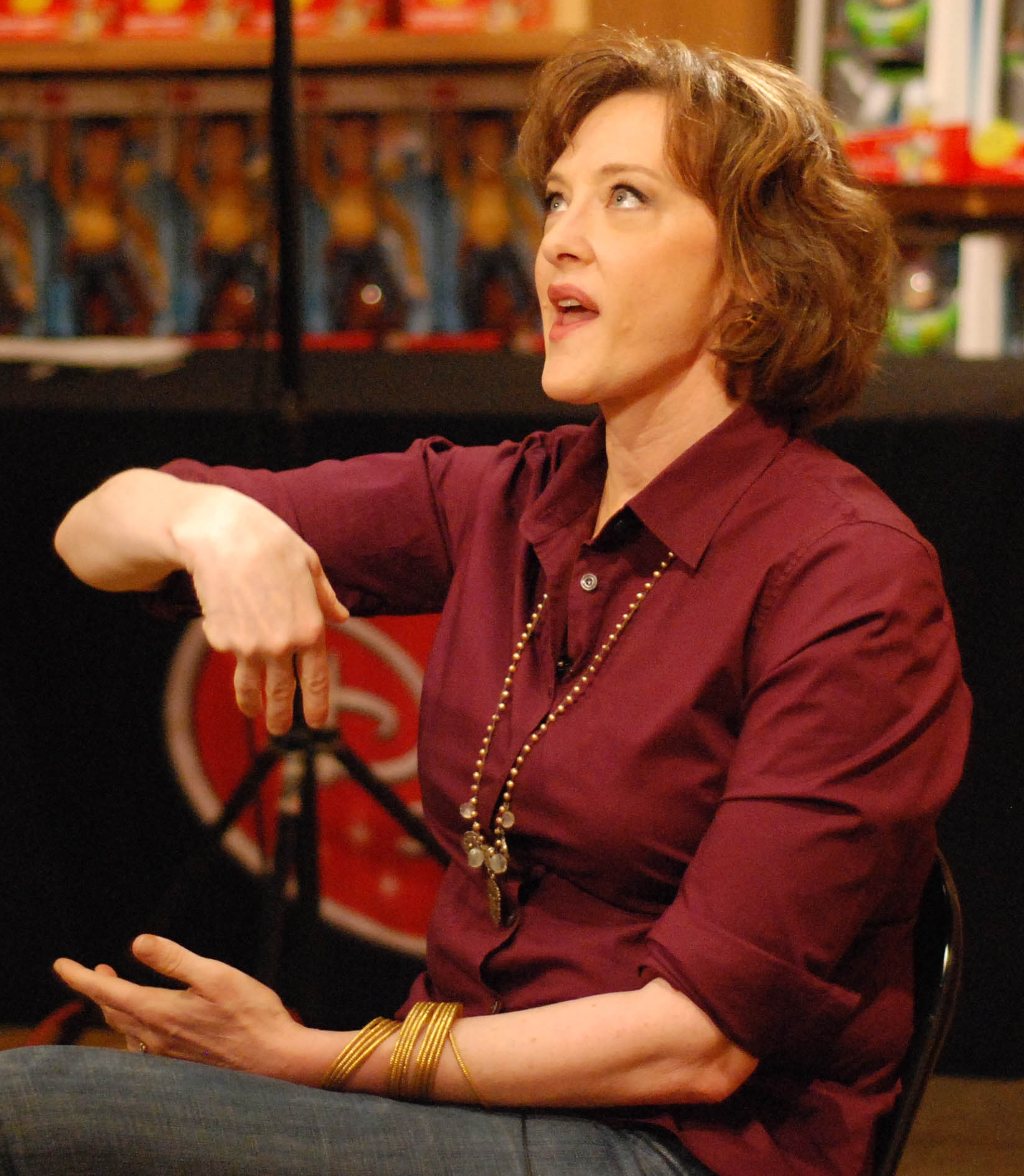 Actress Joan Cusack pictured being interviewed in June 2010